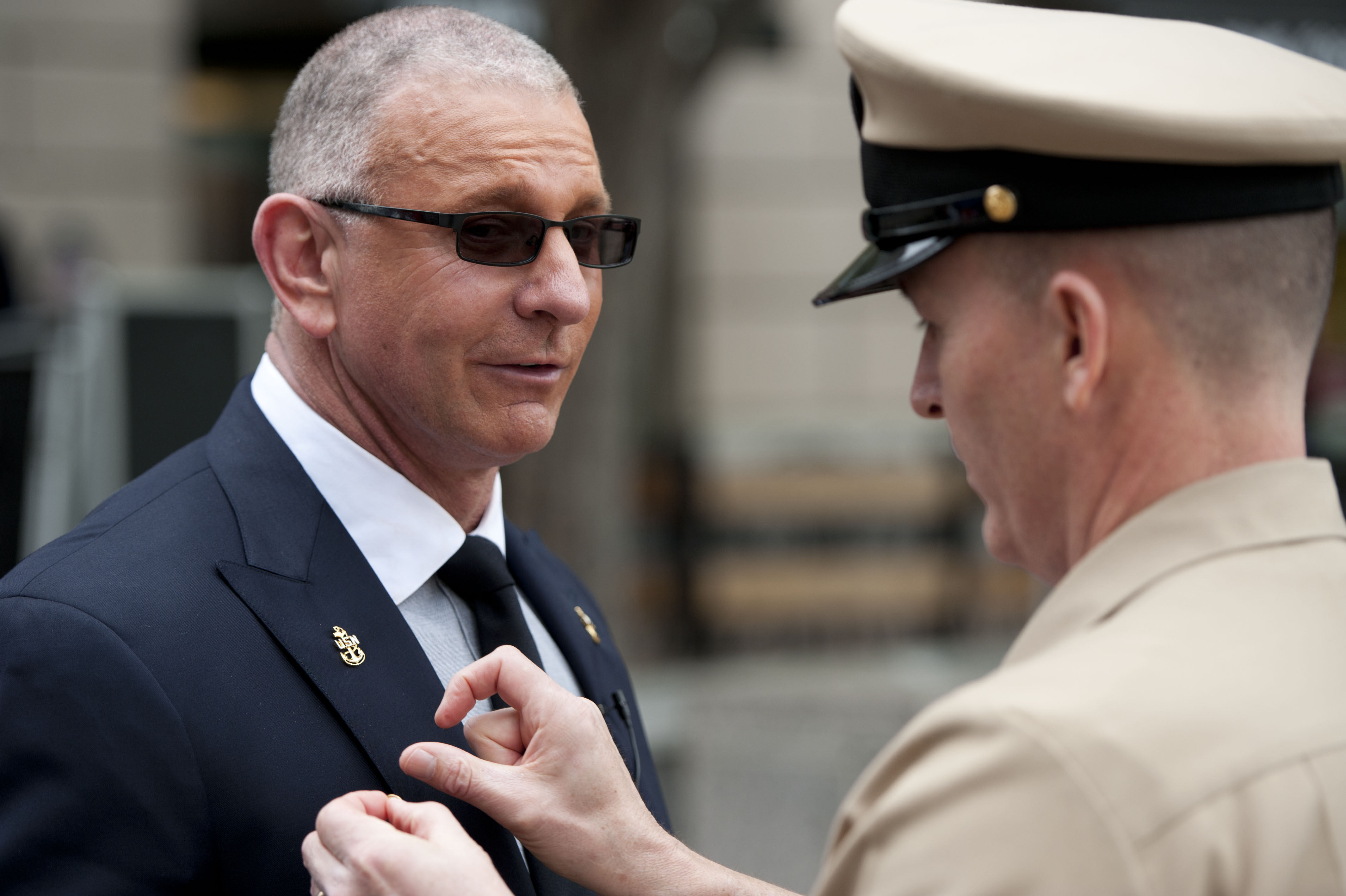 150501-N-OT964-136 WASHINGTON (May 1, 2015) Master Chief Petty Officer of the Navy (MCPON) Mike Stevens places rank insignia on Chef Robert Irvine during a ceremony recognizing him as an Honorary Chief Petty Officer. Irvine has dedicated much of his time to service members world wide supporting their morale and welfare through cooking. (U.S. Navy photo by Mass Communication Specialist 1st Class Martin L. Carey/Released)